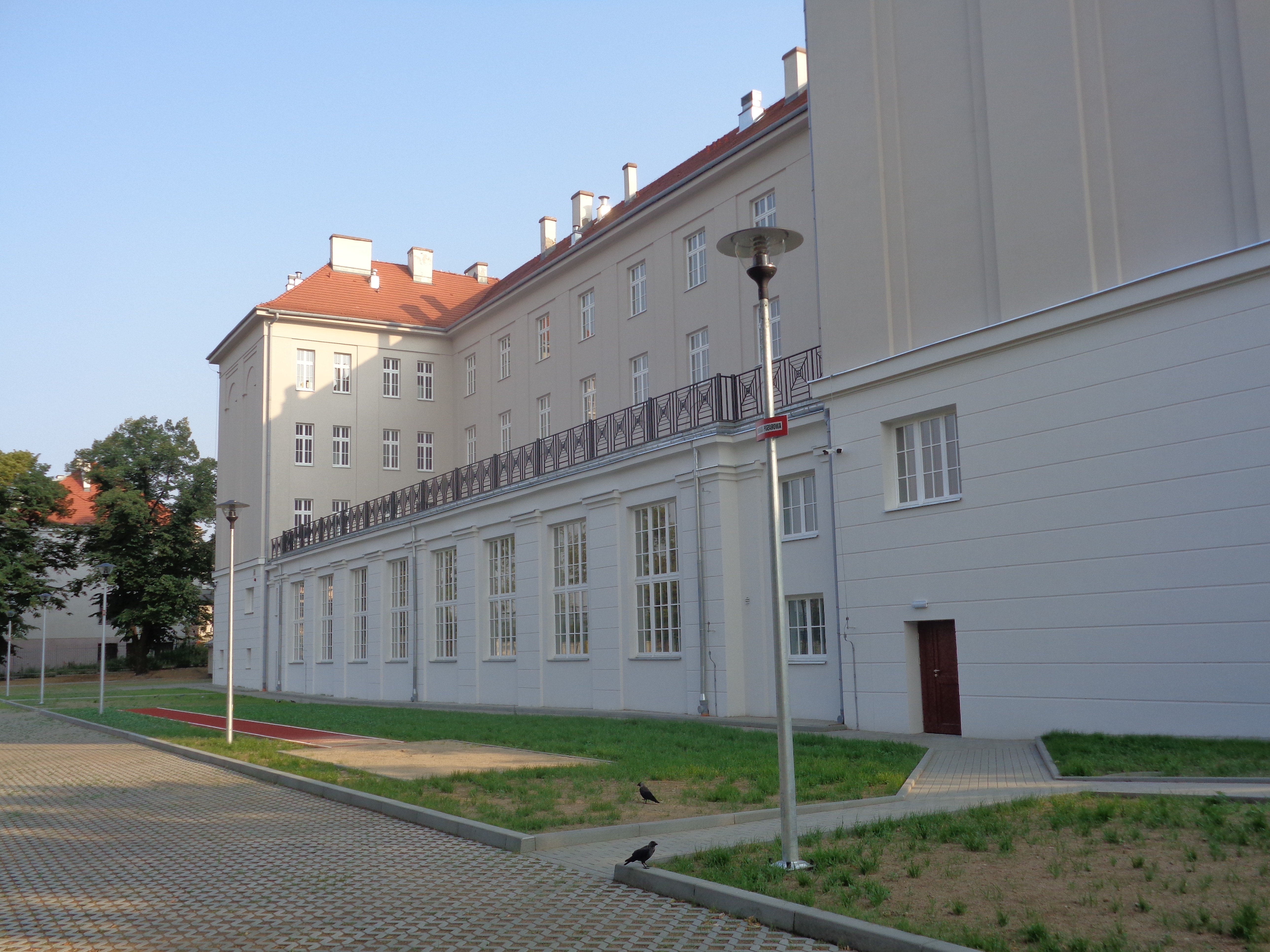 Builduing of High School named of Maria Konopnicka in Włocławek, after the renovation.